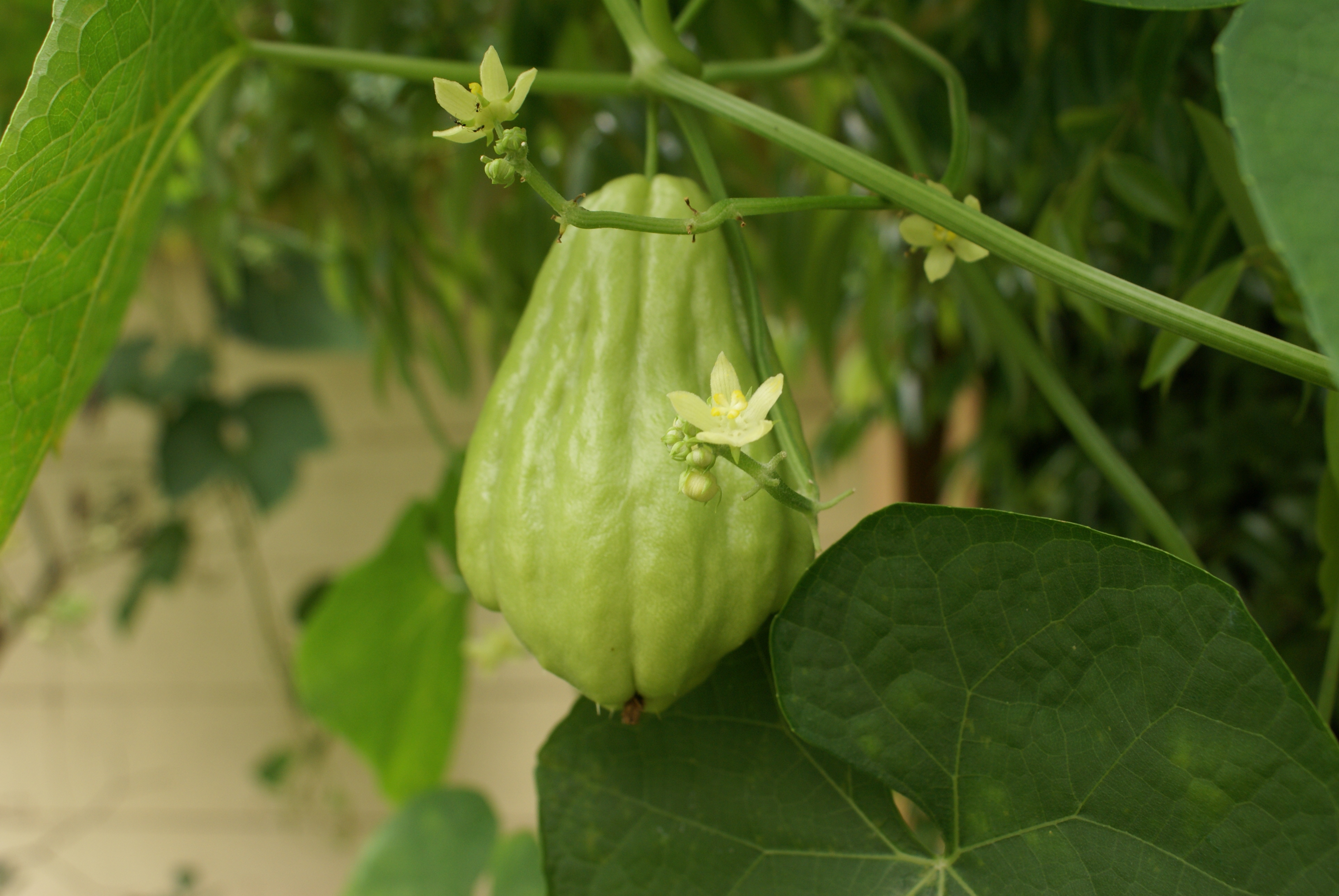 flowers and fruit of Sechium edule